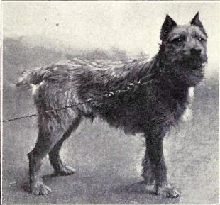 Wire Haired Dutch Terrier from 1915